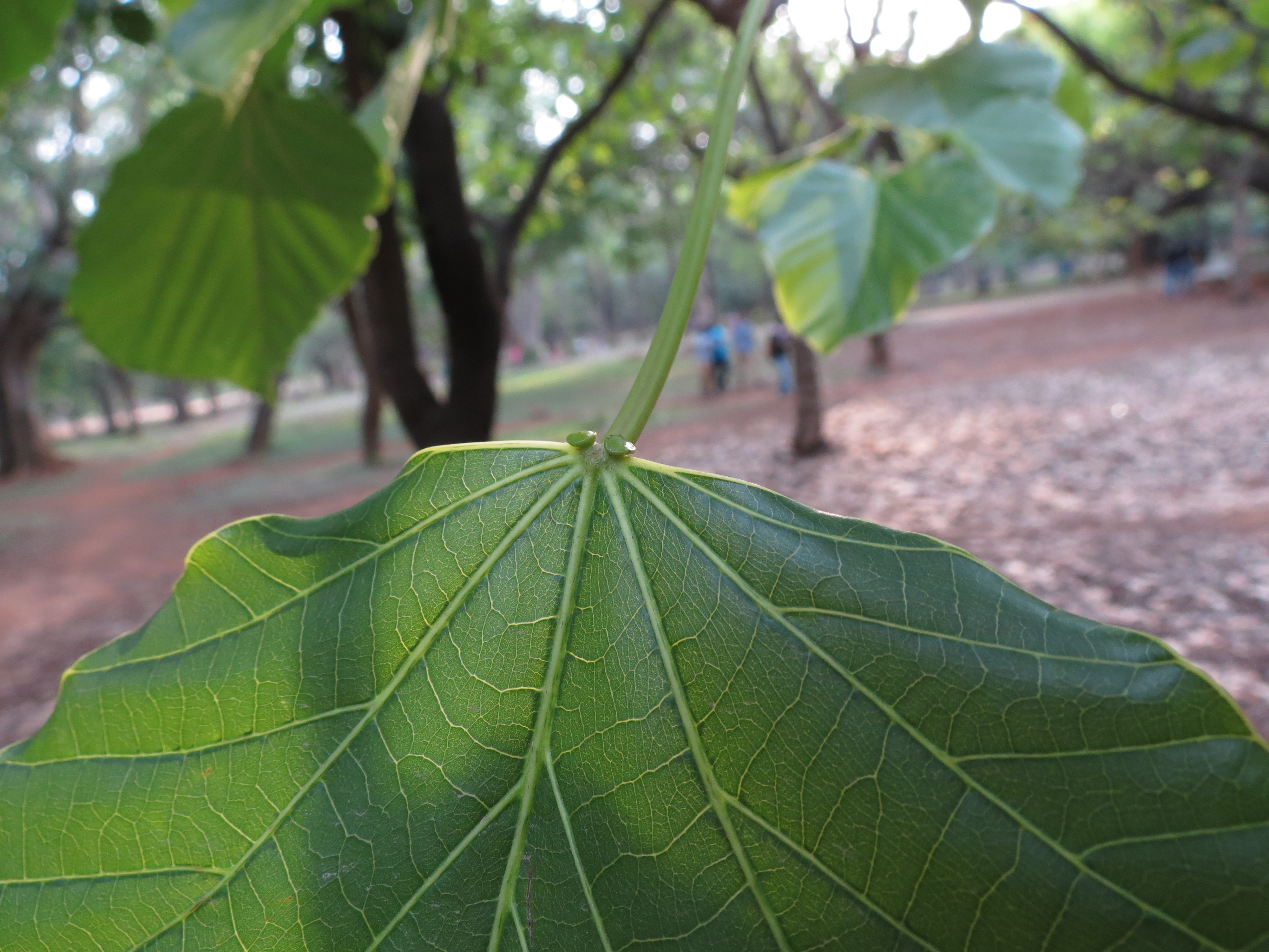 Reutealis trisperma also known as Philippine tung tree seen in Cubbon park Bangalore.